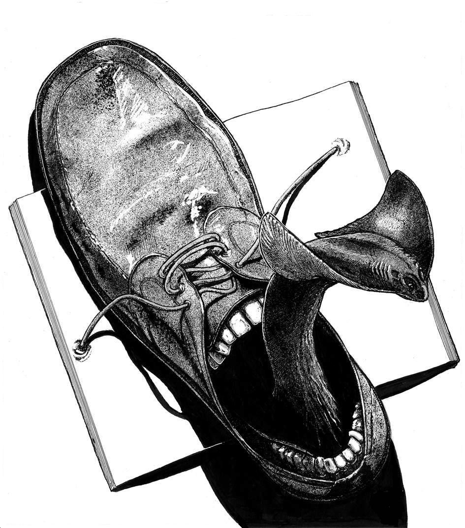 Alem Ćurin, Vignette for Projekt NSB